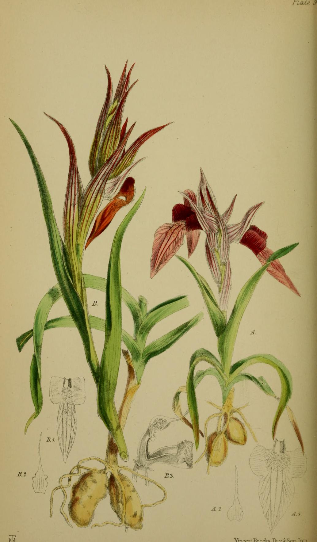 Illustration of: A. (right) Serapias neglecta B. (left) Serapias vomeracea (as syn. Serapias longipetala)